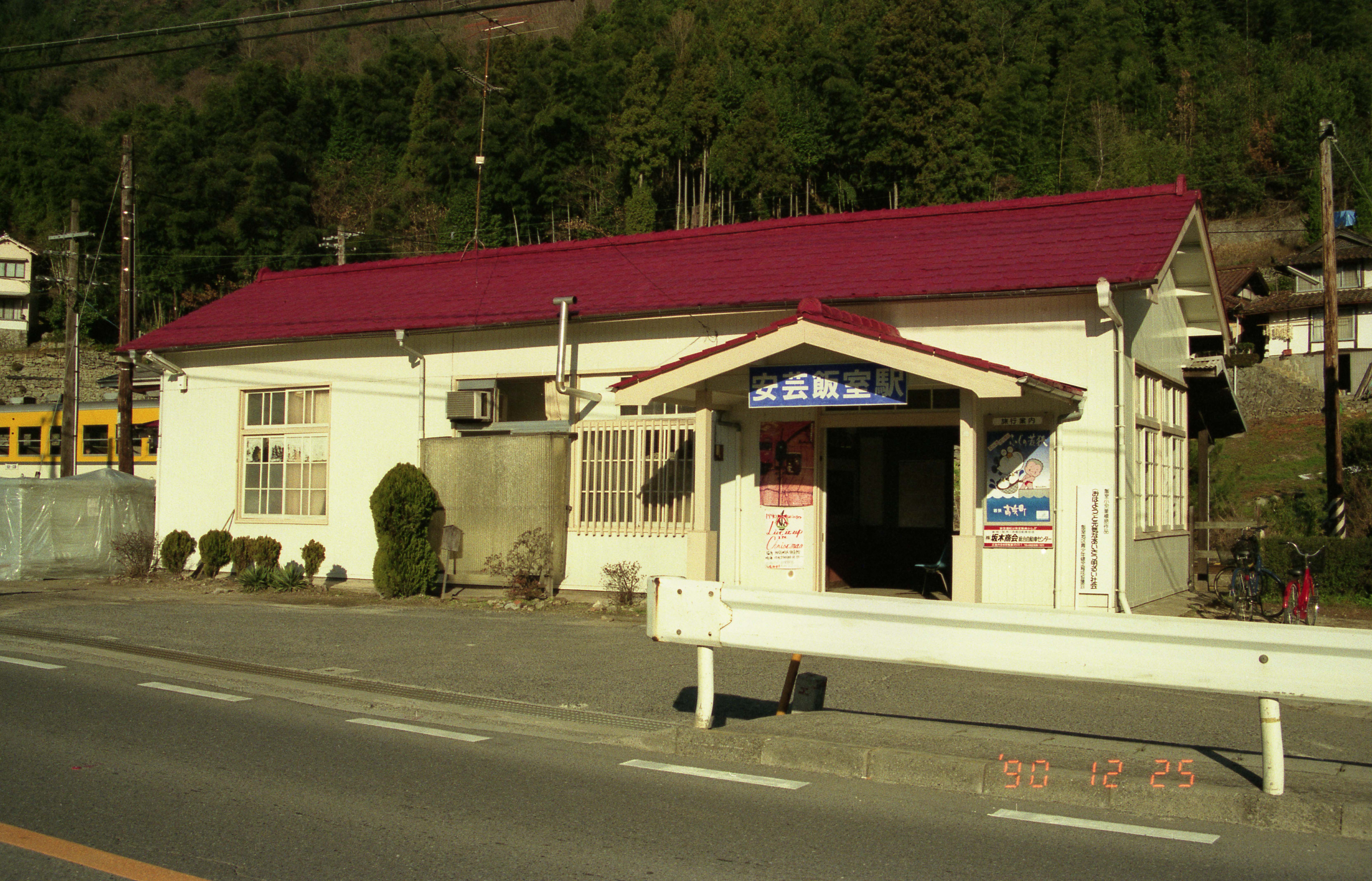 The building of Aki-imuro Station, West Japan Railway Company Kabe Line (before abolished)